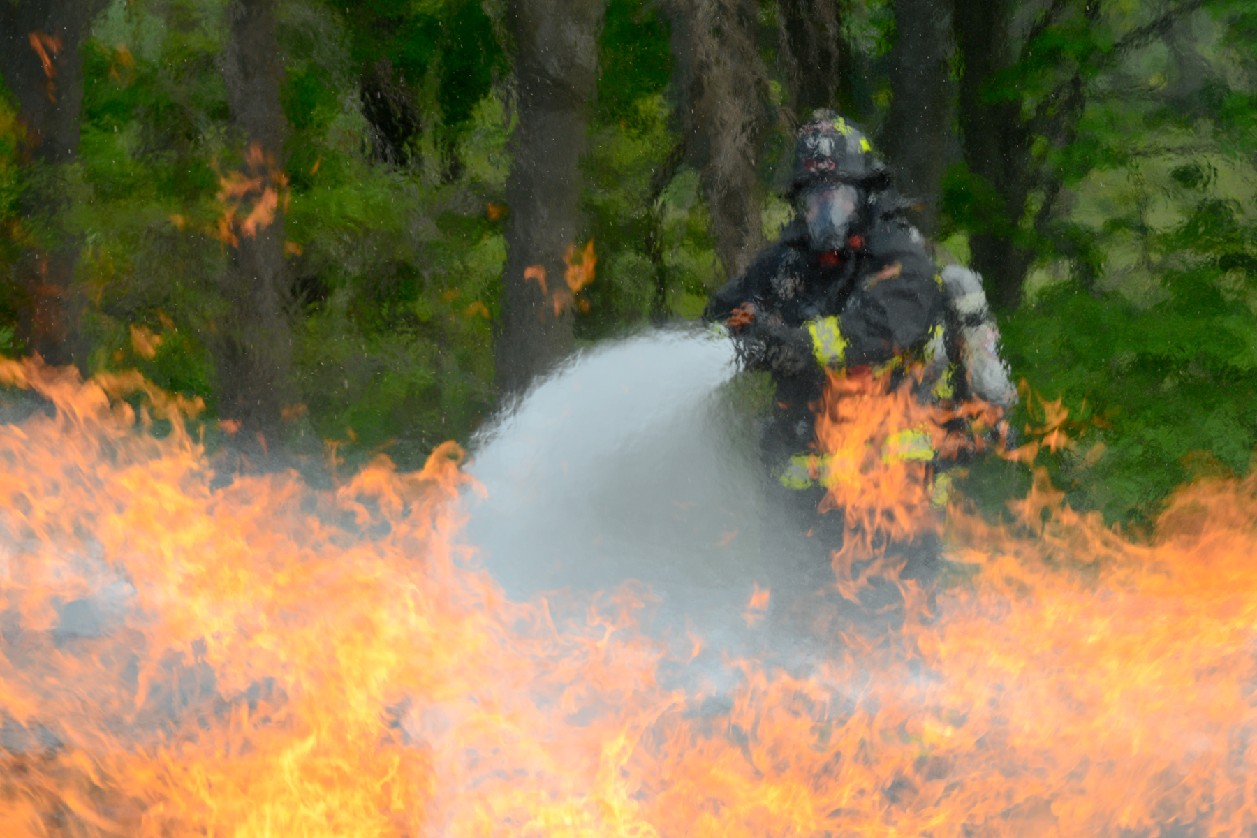 Members of the Fort Indiantown Gap Fire Department participated in an array of firefighting training scenarios May 13-15, as part of annual training and certification for its members. Members of the 193rd Special Operations Wing and local mutual-aid companies were invited to participate in the training exercises. (Pennsylvania National Guard photo by Tom Cherry/released More photos